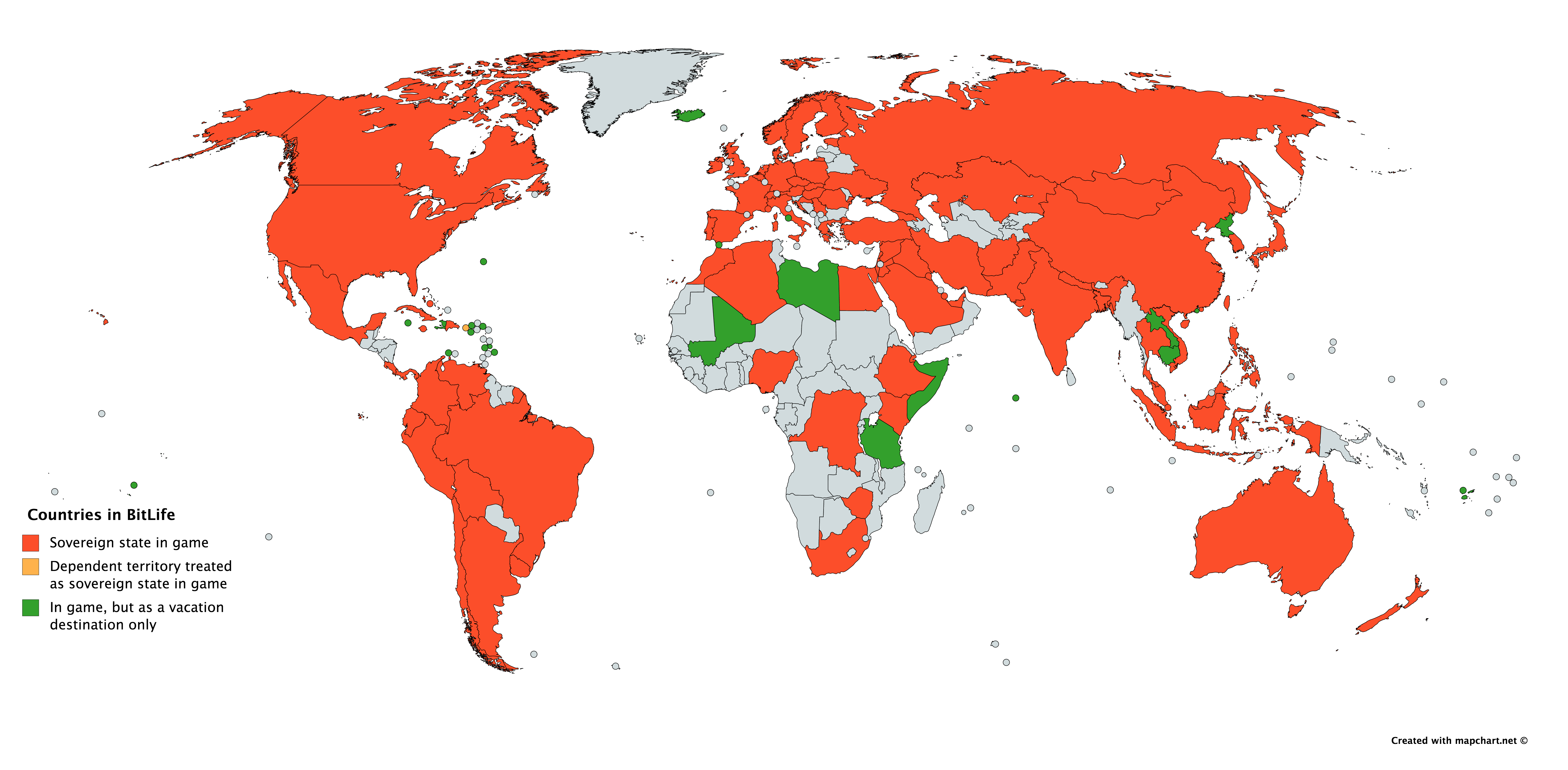 A map showing the countries playable in the mobile app game, BitLife, available for iOS and Android